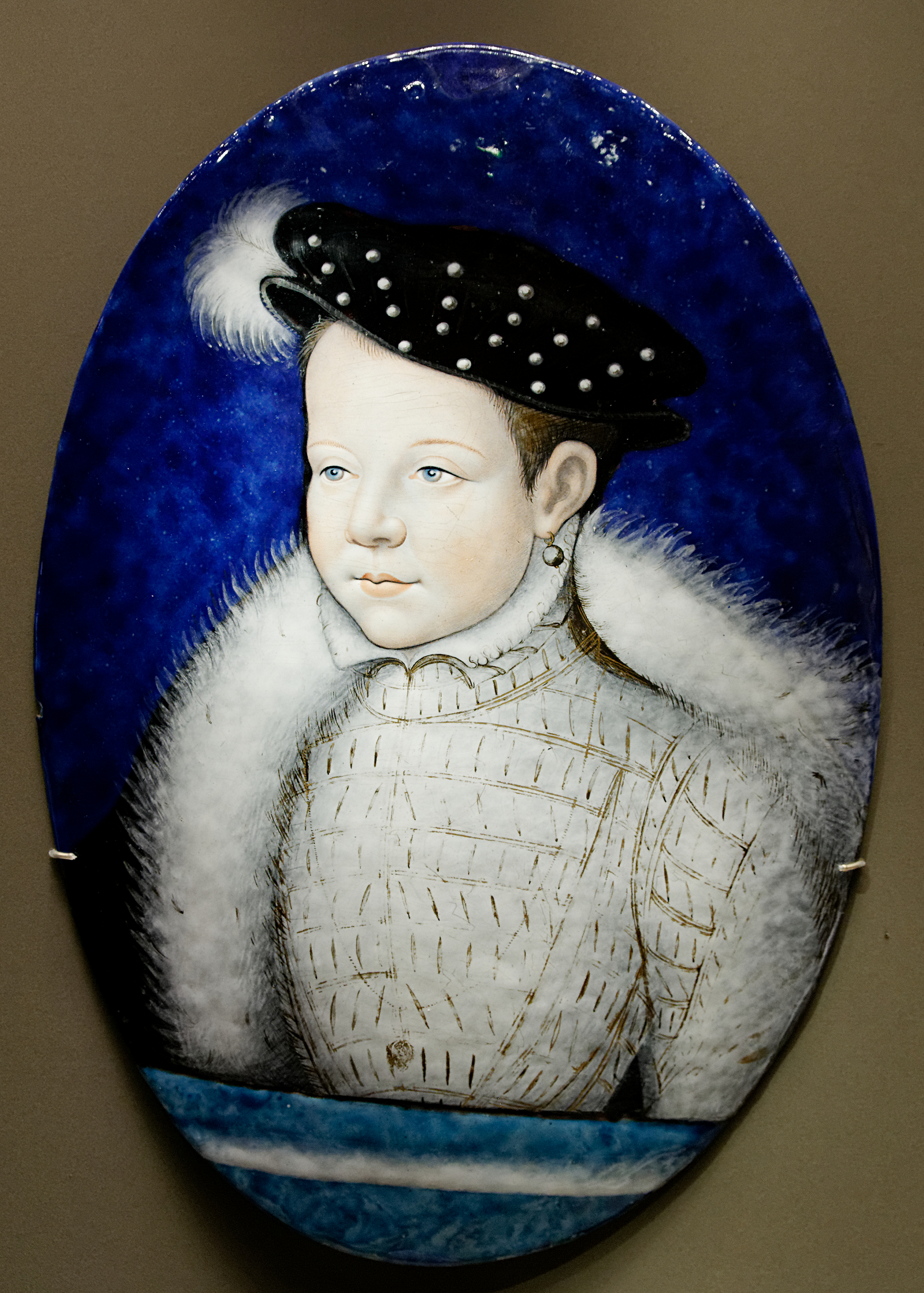 François II as a child.